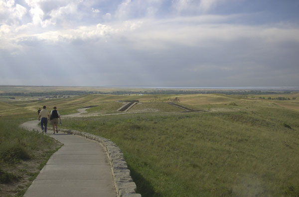 Little Bighorn memorial overview with clouds by Durwood Brandon.